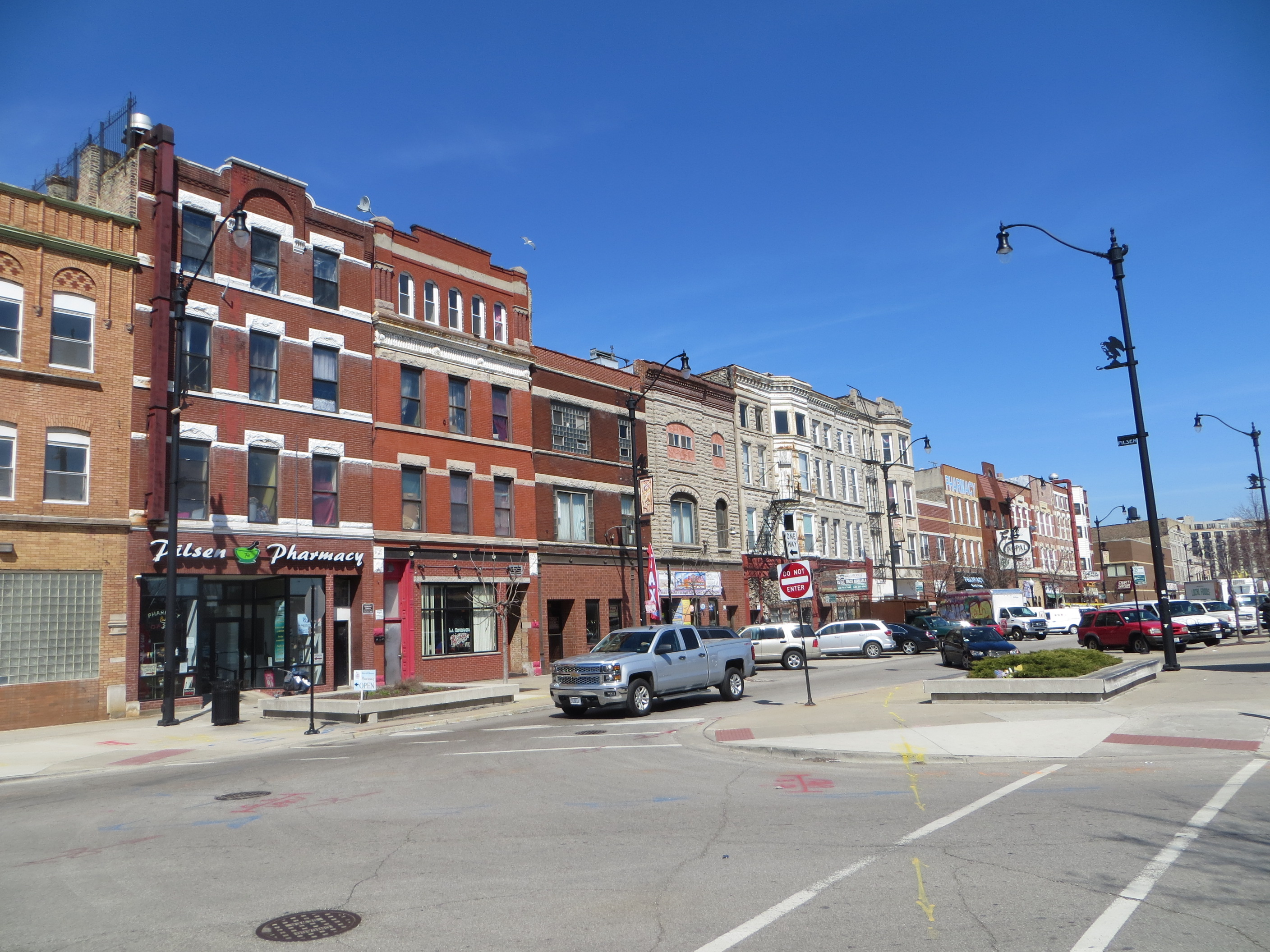 20160329 100 Blue Island Ave. @ 19th St.